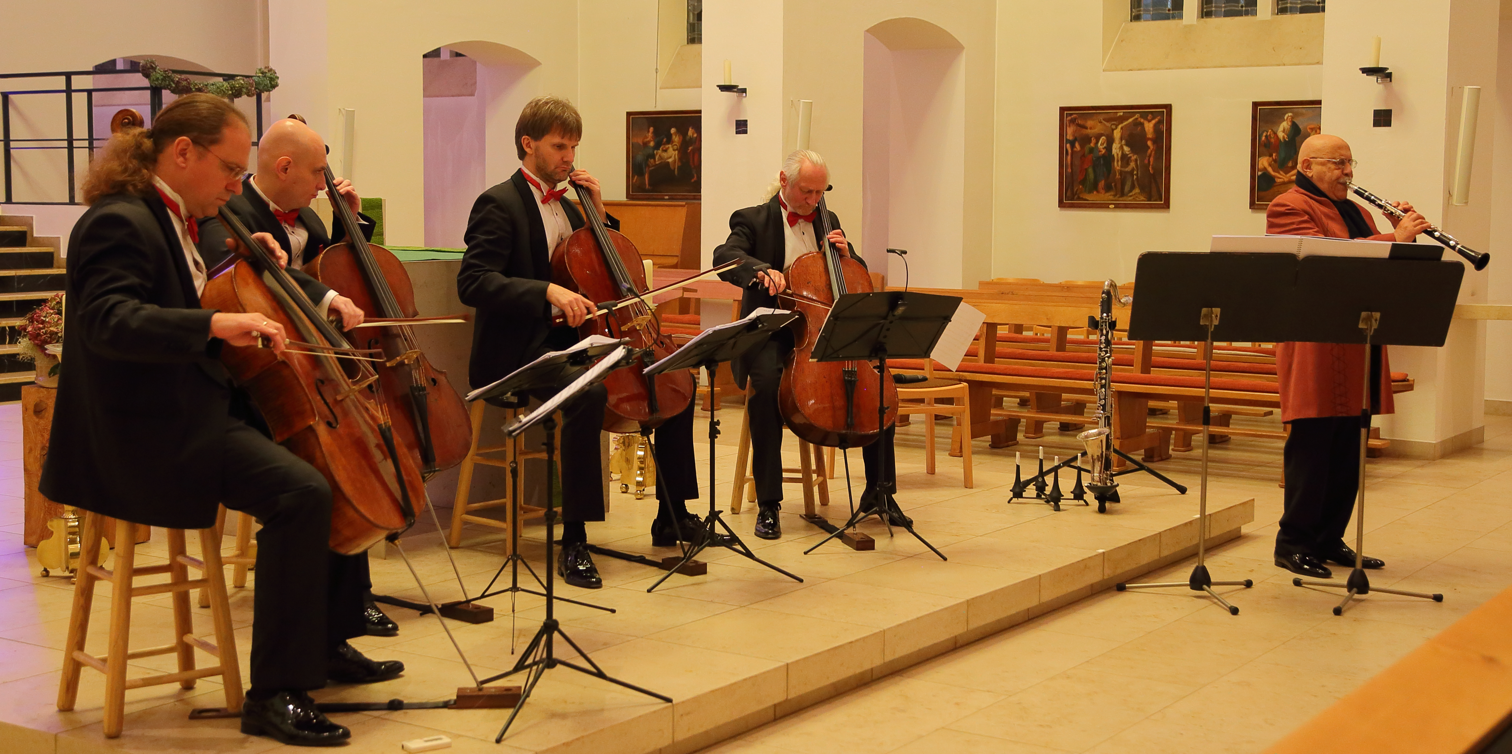 Concert Klezmer Bridges performed by Giora Feidman (right) and the Rastrelli Cello Quartet at the Roman Catholic St Dionysius Parish Church (Pfarrkirche St. Dionysius) in Recke, Kreis Steinfurt, North Rhine-Westphalia, Germany.